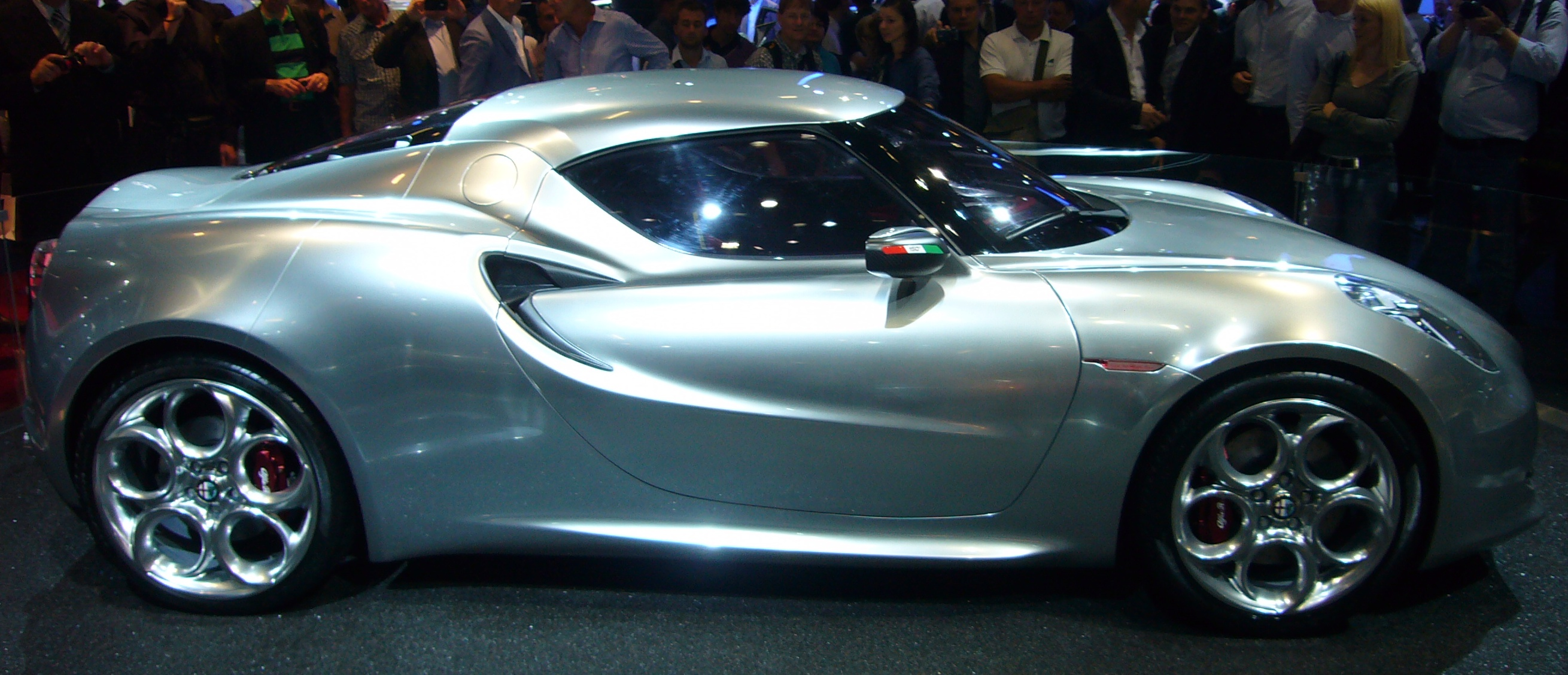 Alfa Romeo 4C Fluid Metal Concept at IAA Frankfurt 2011.